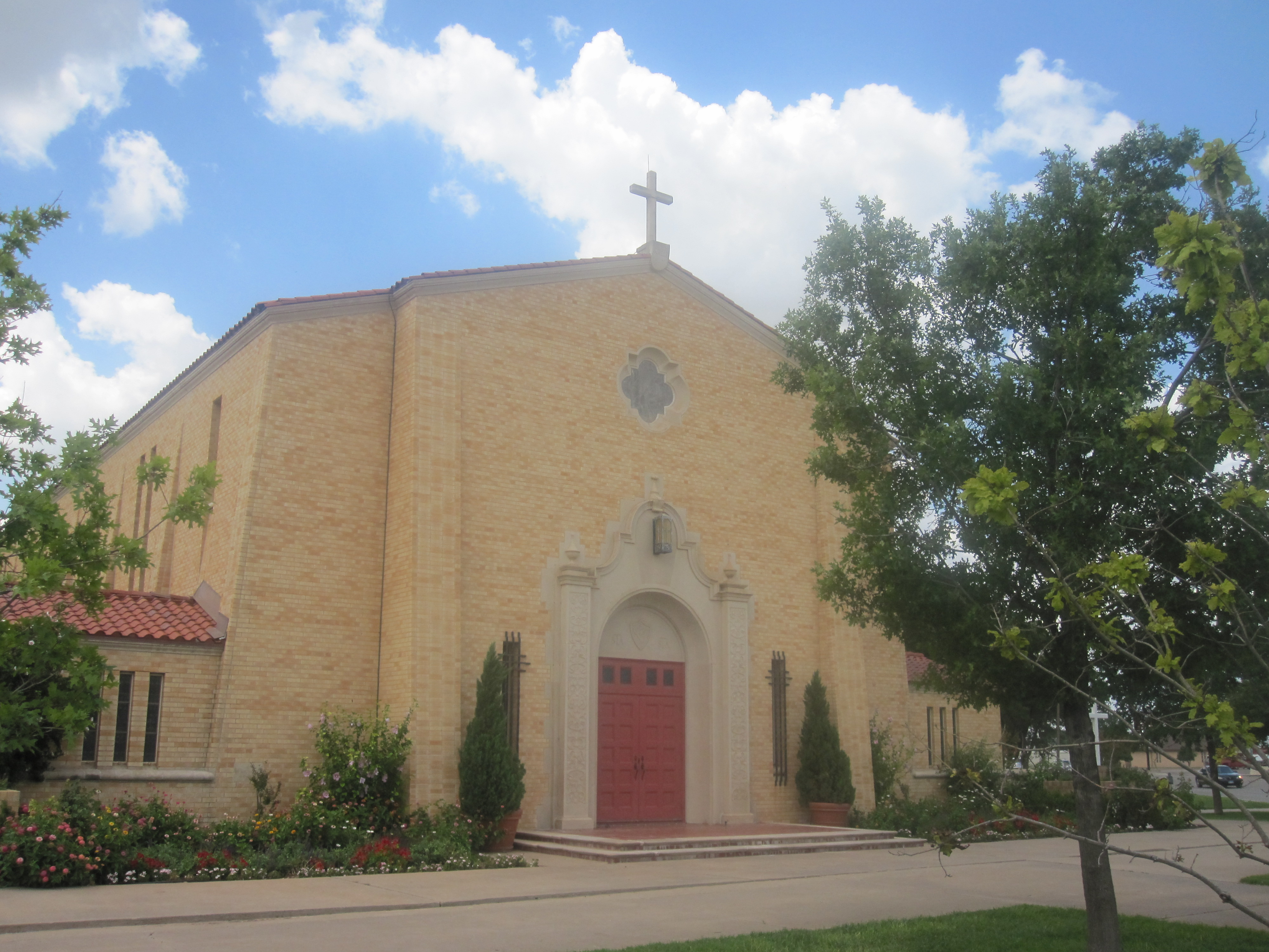 I took photo with Canon camera in Hereford, TX.